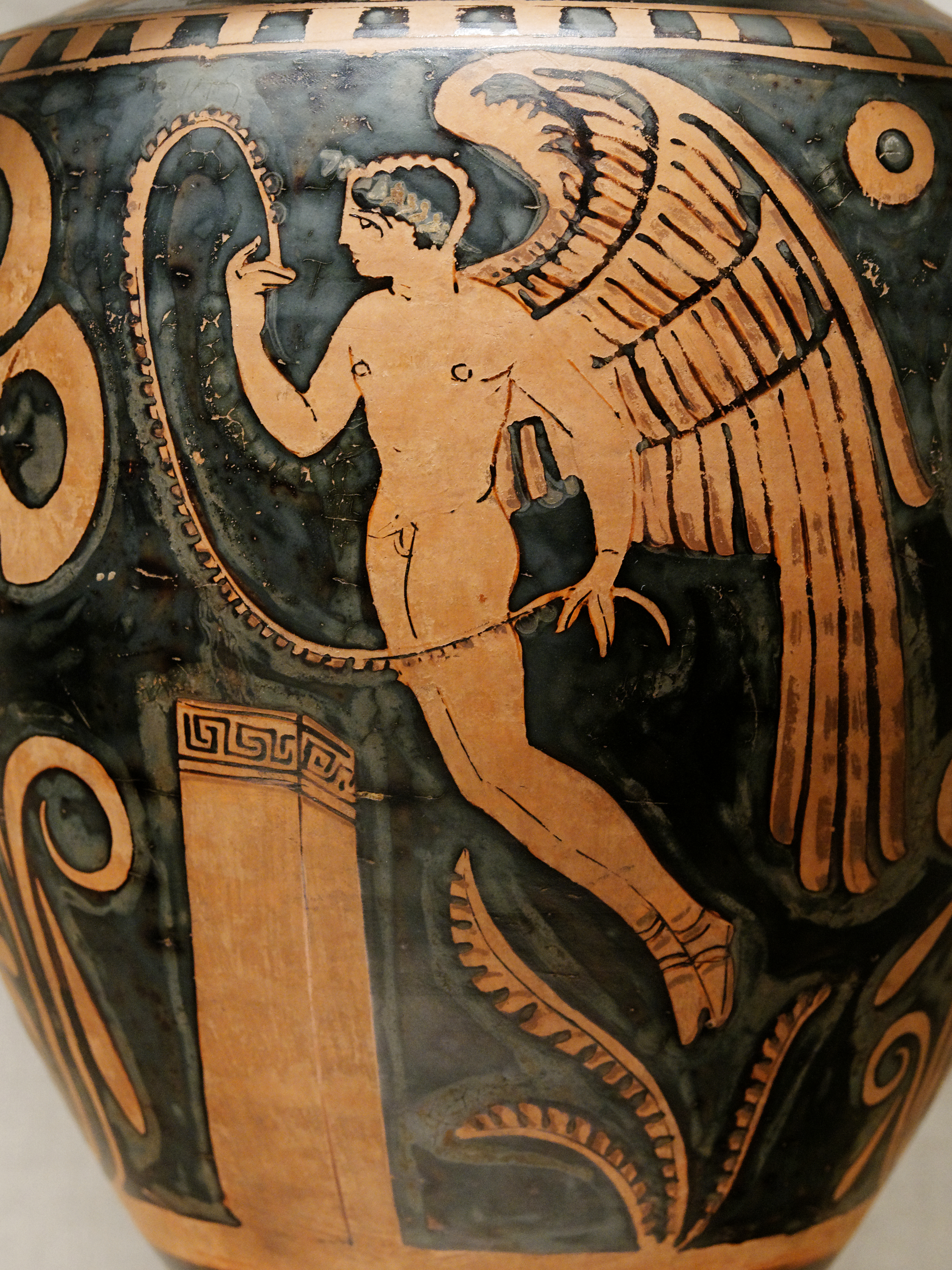 Winged youth (Eros?) flying to an altar. Side A of a Lucanian red-figure nestoris.